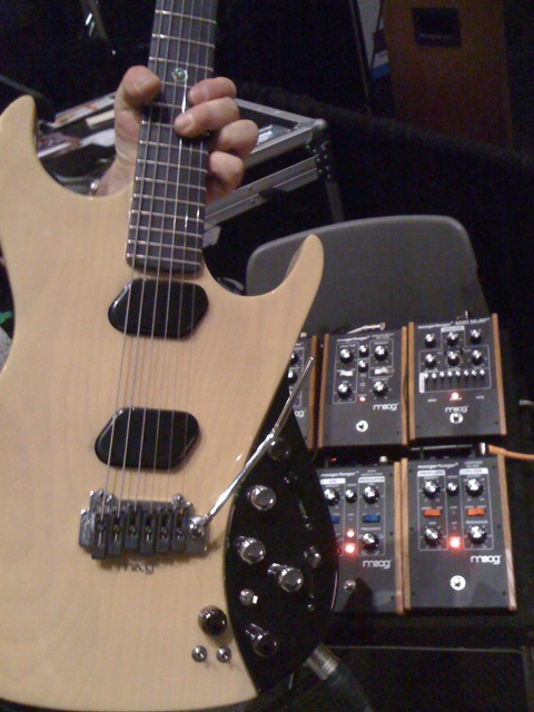 Just played a Moog guitar. Felt like six ebow units were there on full sustain. Versatile. Addictive. #sxsw Posted by